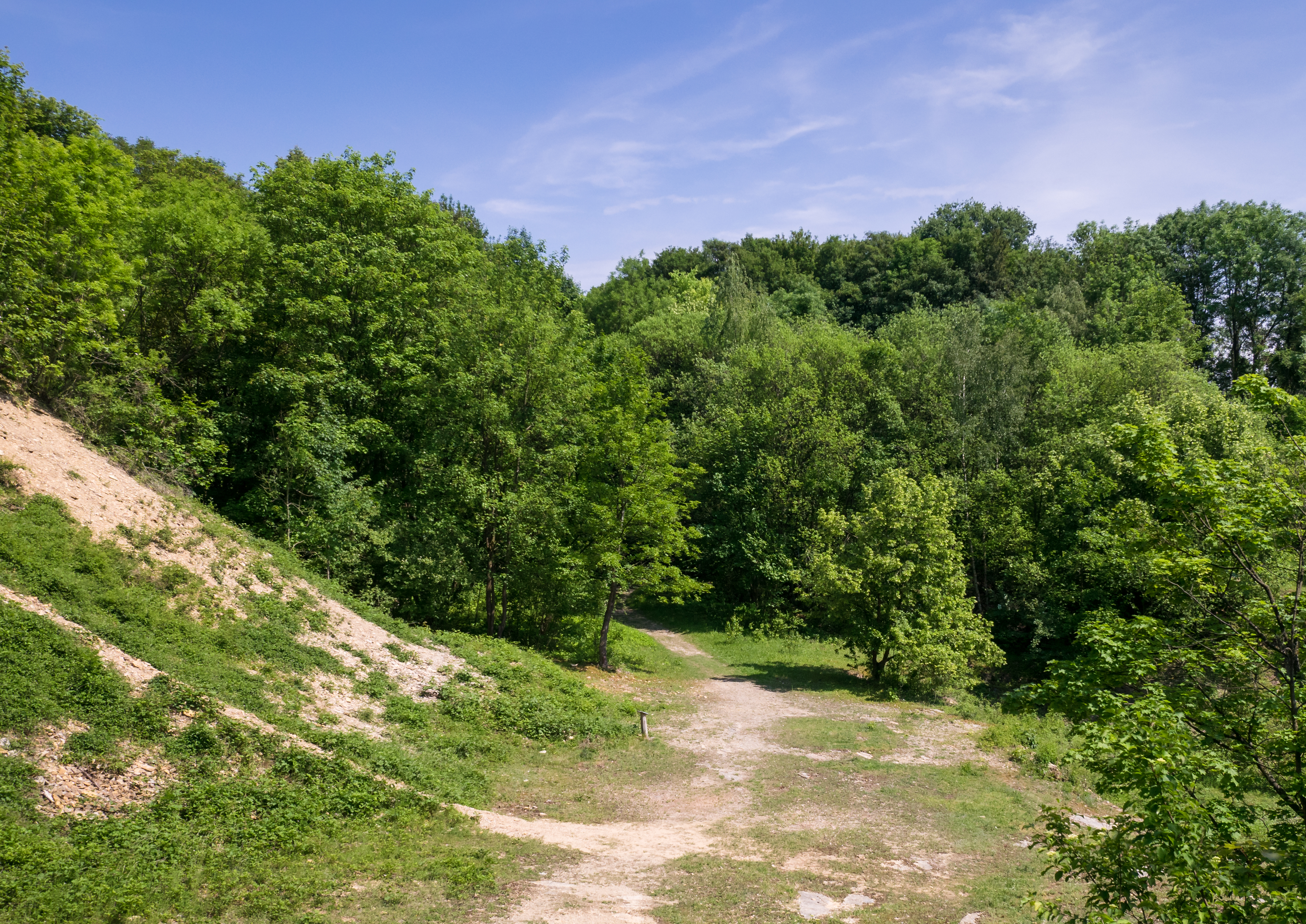 Pioneer species and chalk heath vegetation at the Westerberg quarry. Osnabrück, Lower Saxony, Germany